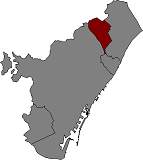 Location of Santa Coloma de Gramenet in Barcelonès